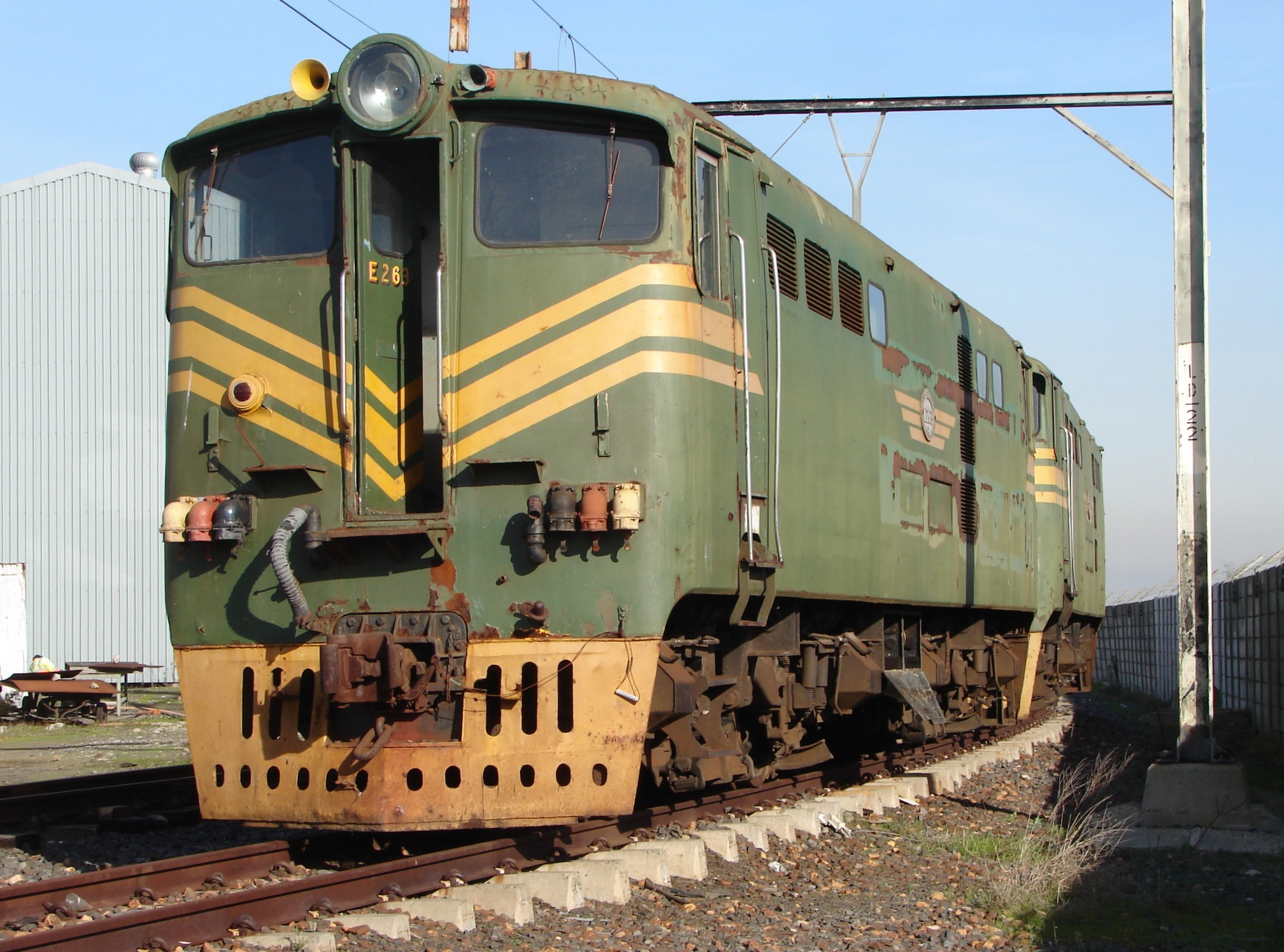 SAR Class 5E, Series 3 no. E564, renumbered to E263 for reasons unknownBuilder's Number: VF2572Location: Bellville Loco Depot, Cape Town